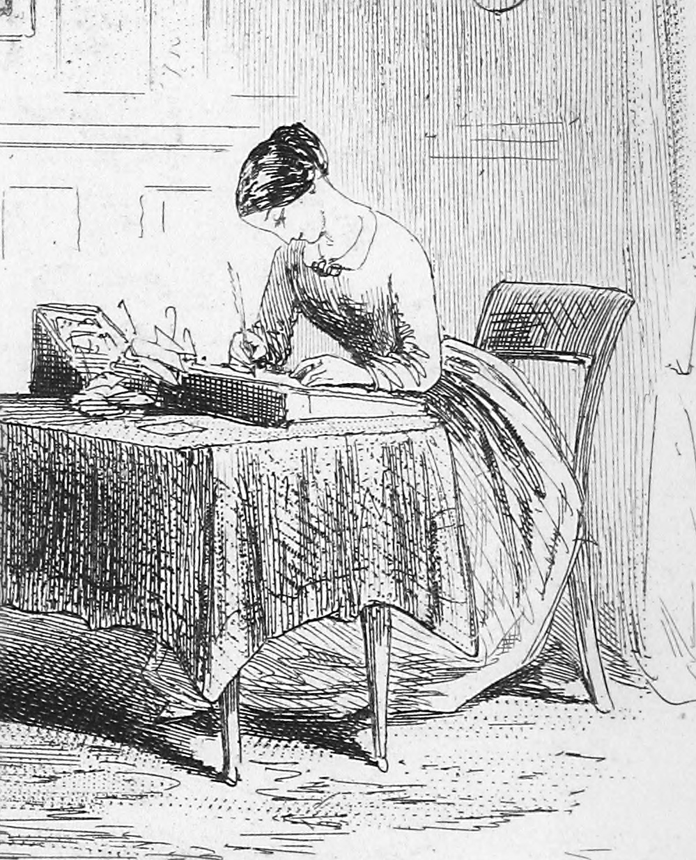 An illustration of Esther Summerson, the narrator of Bleak House by Charles Dickens.